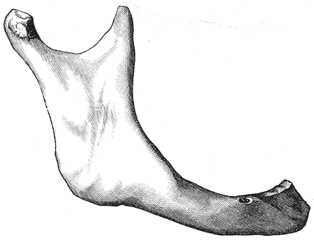 The mandible in old age (side view).